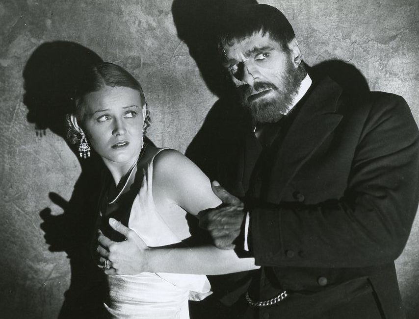 Original photo of Gloria Stuart and Boris Karloff in The Old Dark House (1932).